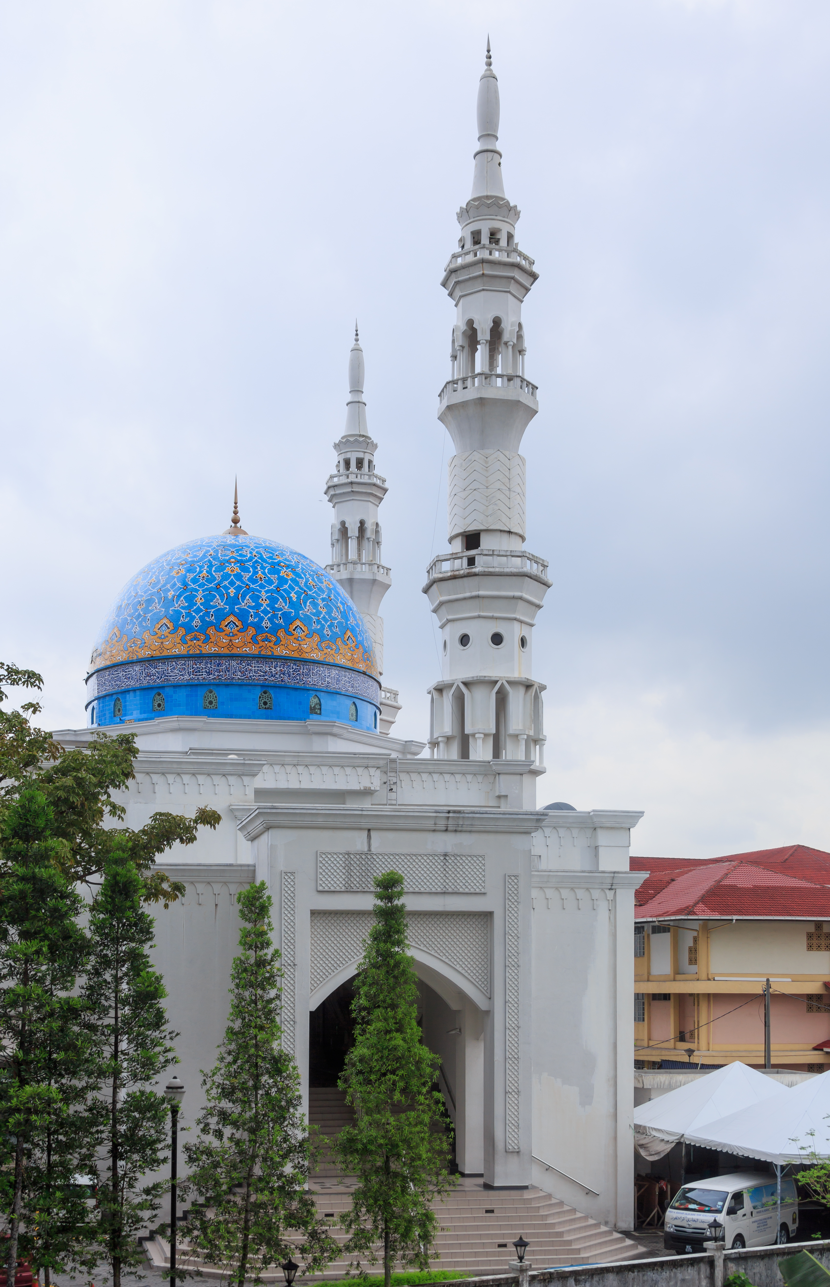 Kuala Lumpur, Malaysia: Al-Bukhary Mosque